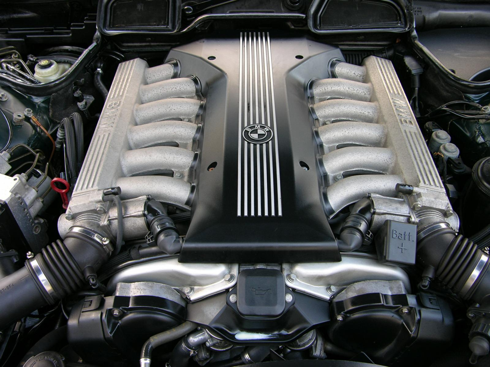 BMW 750iL Individual